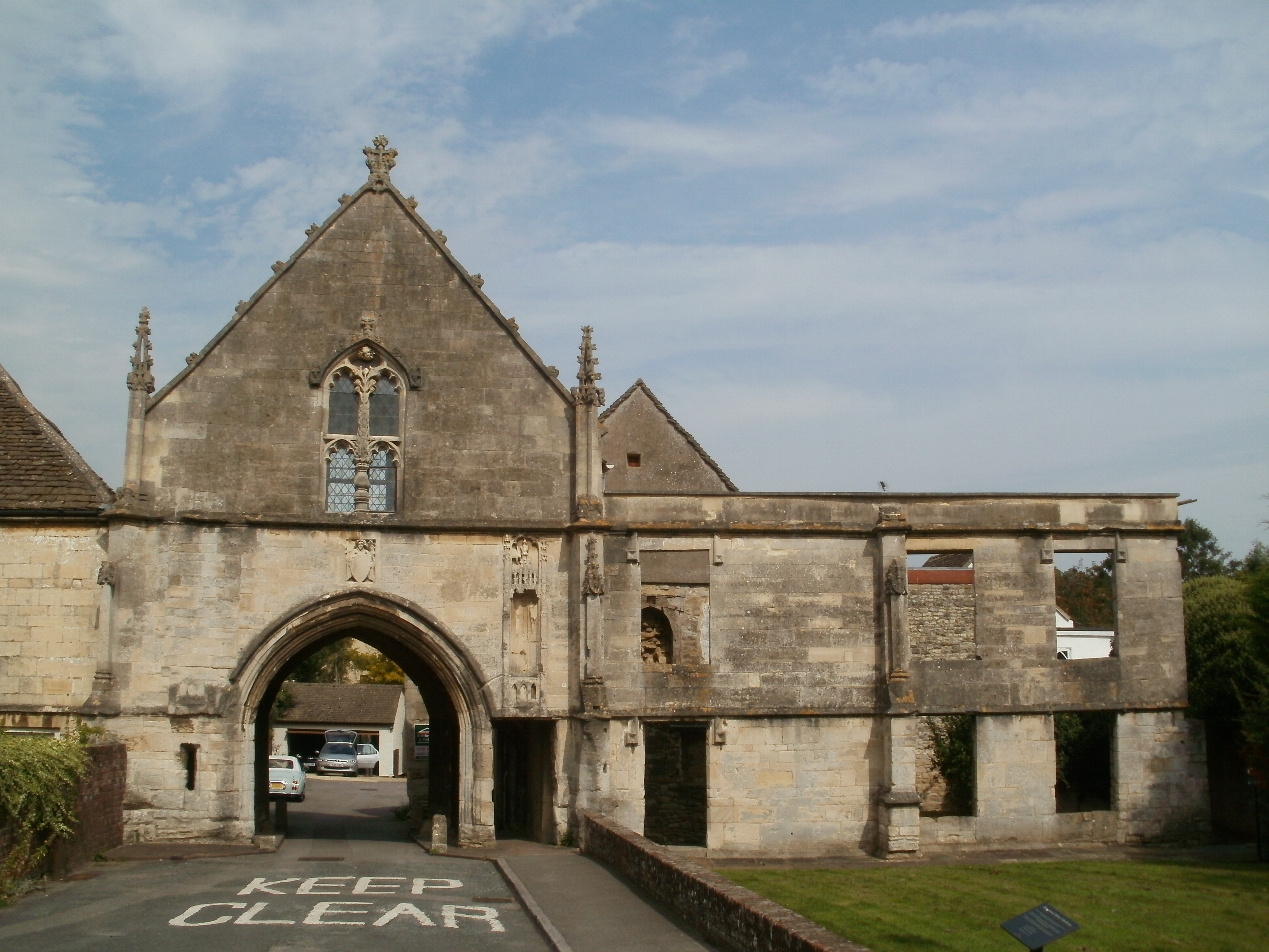 Picture of Kingswood Abbey gatehouse, taken by me.